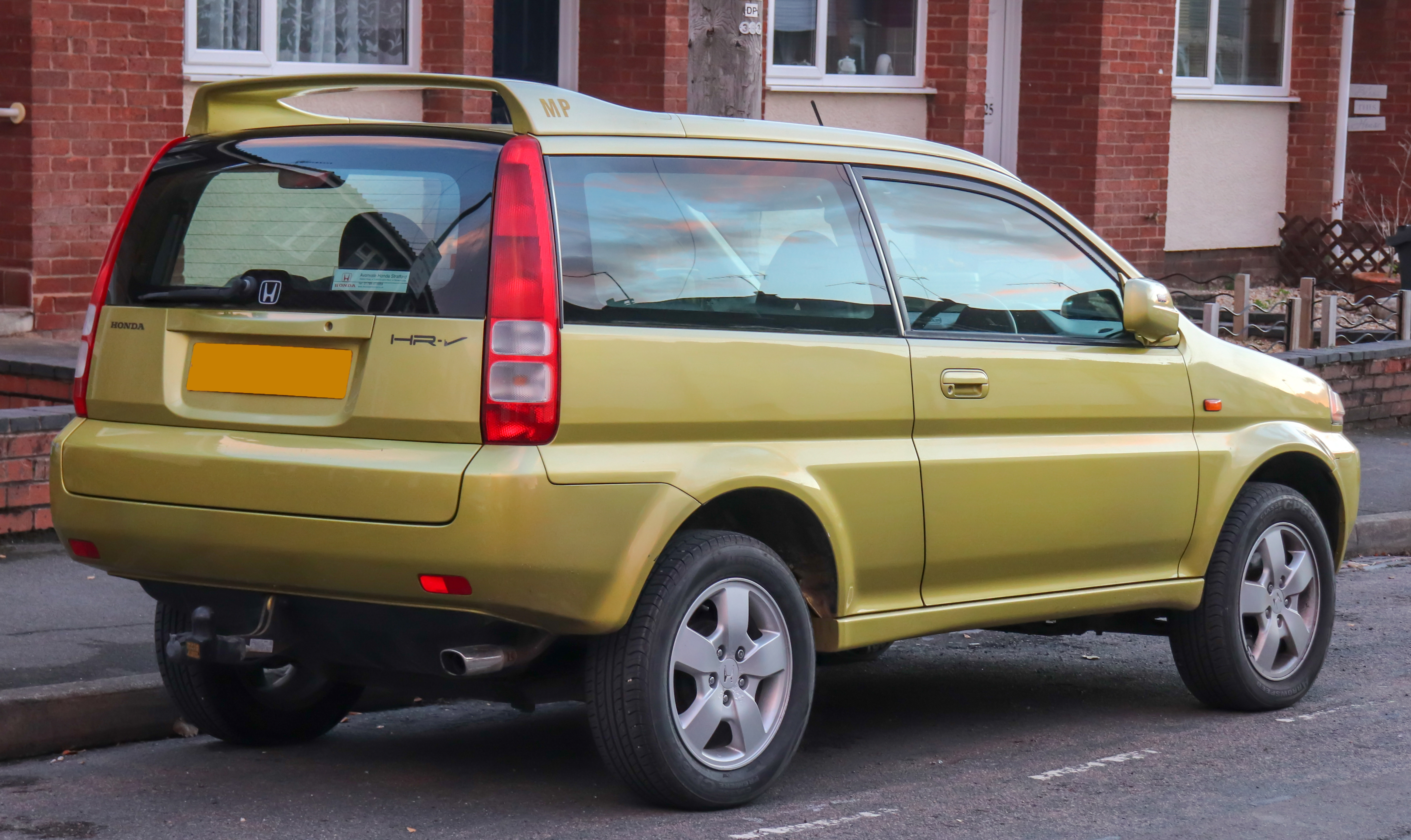 1999 Honda HR-V Automatic 1.6 Rear Taken in Warwick